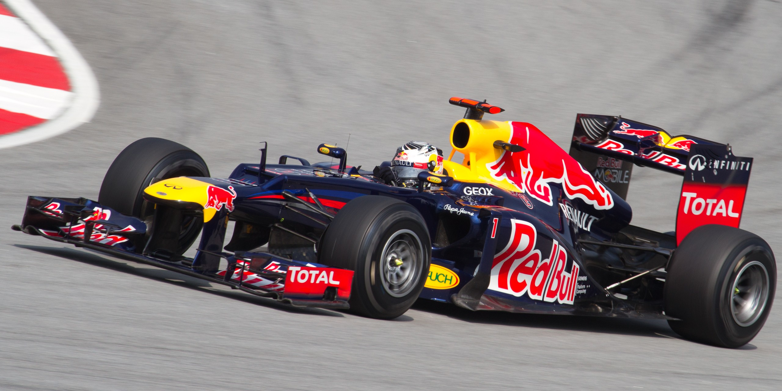 Formula One 2012 Rd.2 Malaysian GP: Sebastian Vettel (Red Bull) during the qualify session on Saturday.